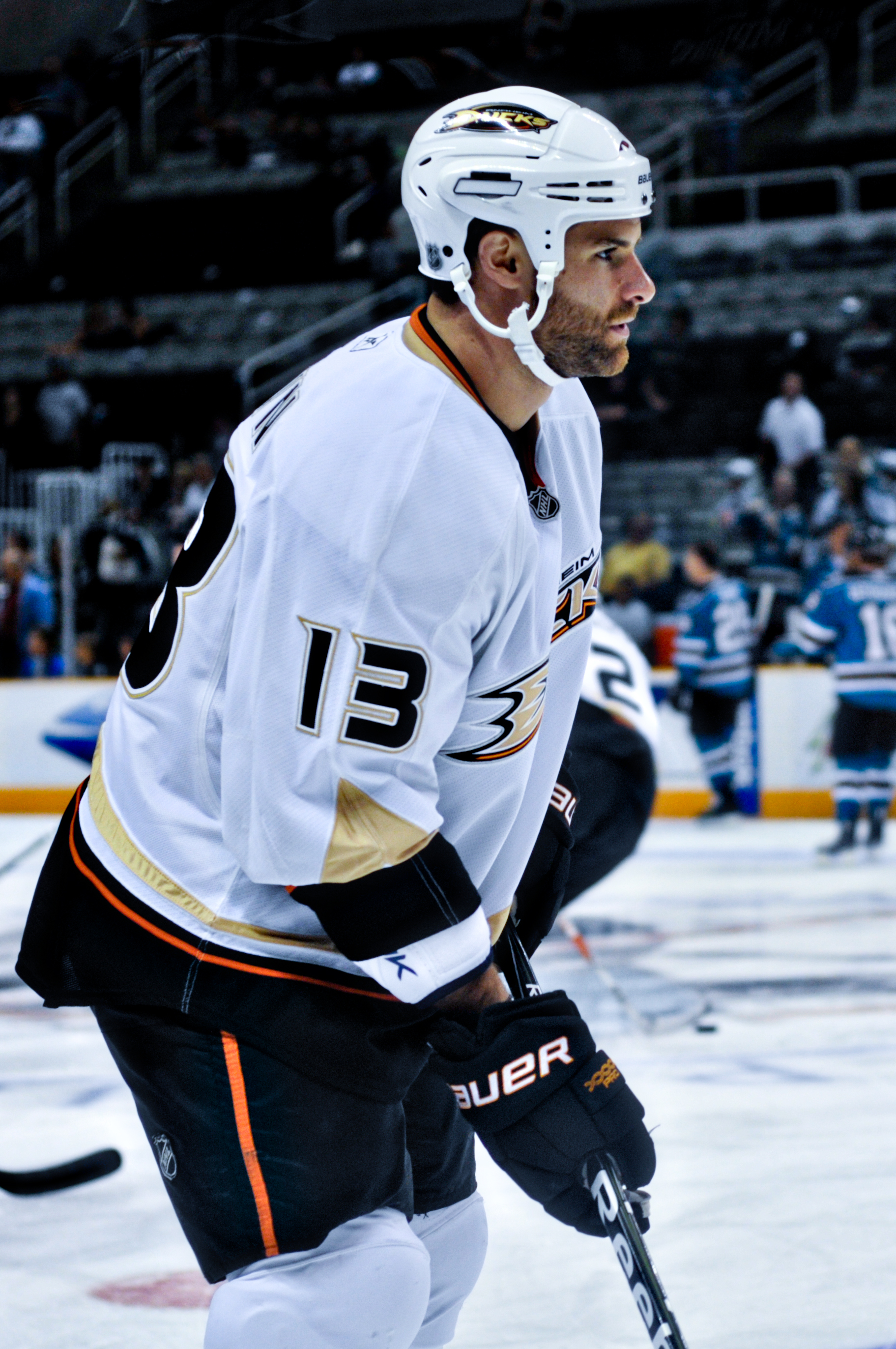 Mike Brown of Anaheim Ducks